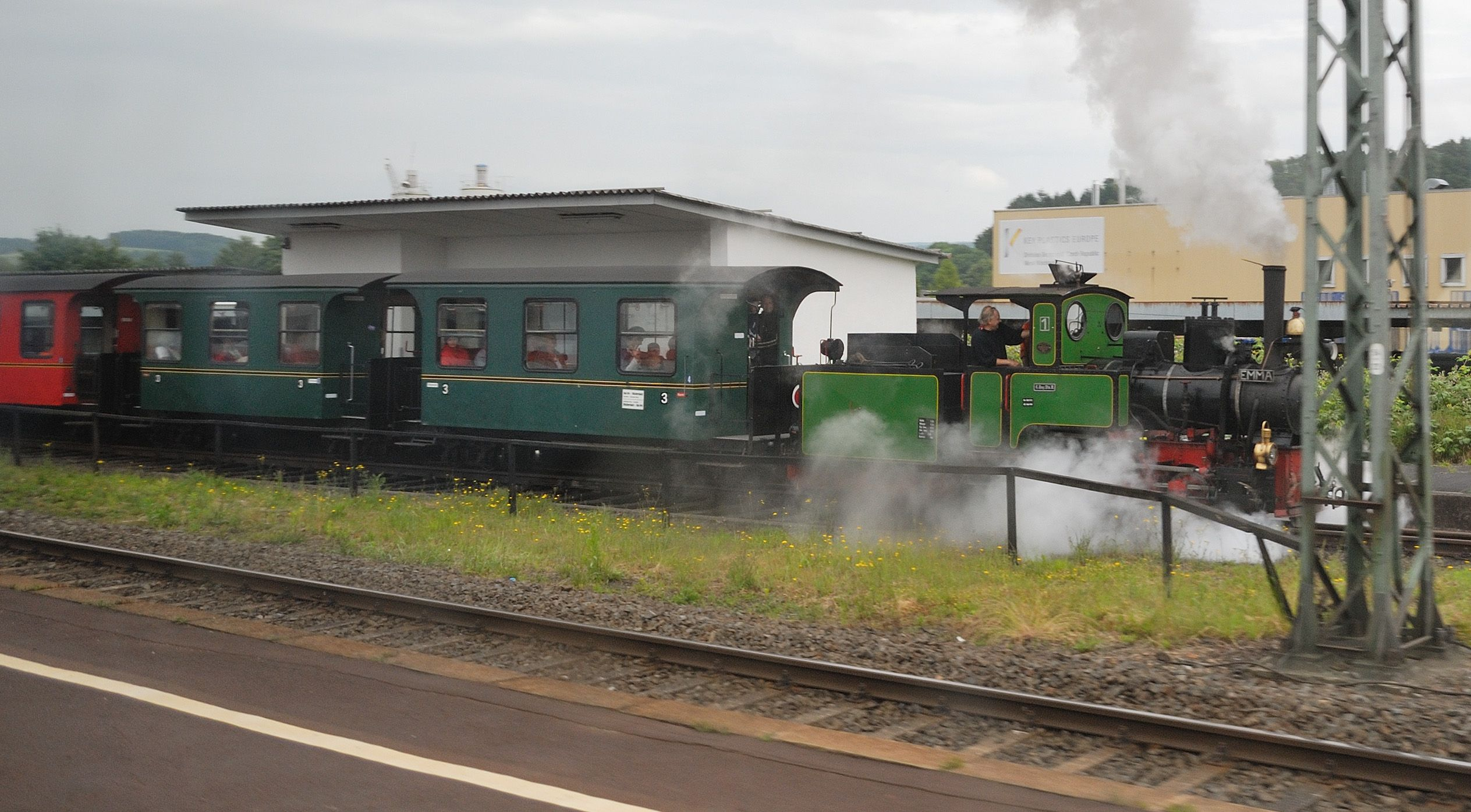 A historic narrow gauge steam train at Wächtersbach station. Image taken from an ICE.